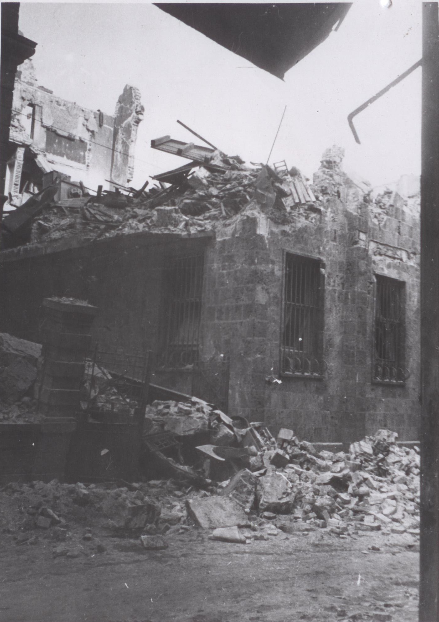 Sofia Bombings 1944: The Bishop's Residence